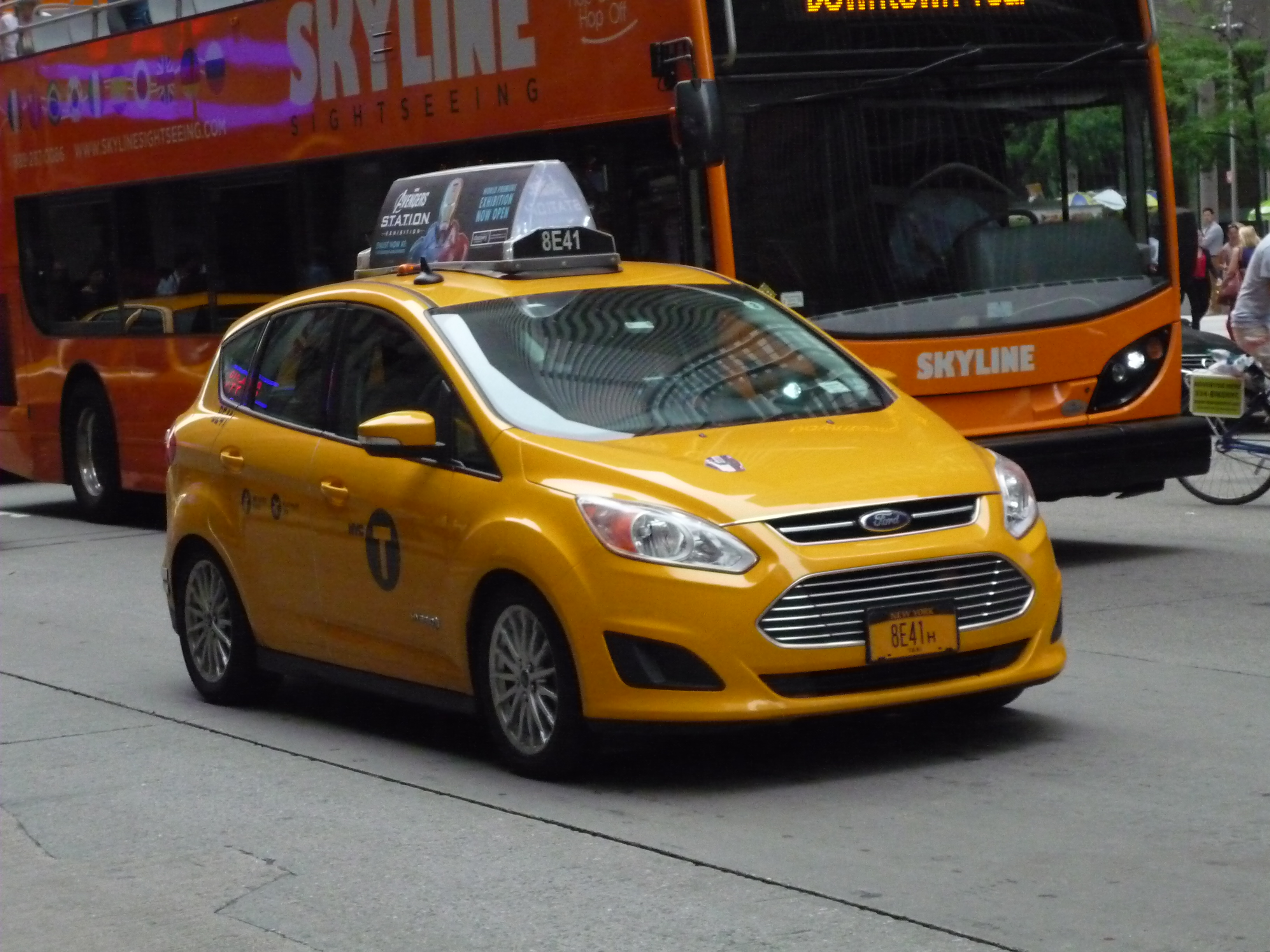 Long a fixture in Ford's European lineup, the C-Max didn't get to the USA in 2012 when Ford decided to market it here as an affordable gasoline-electric utility vehicle. Americans only get the hybrid variants as a result of this. Every C-Max intended for American consumption is built in Michigan.